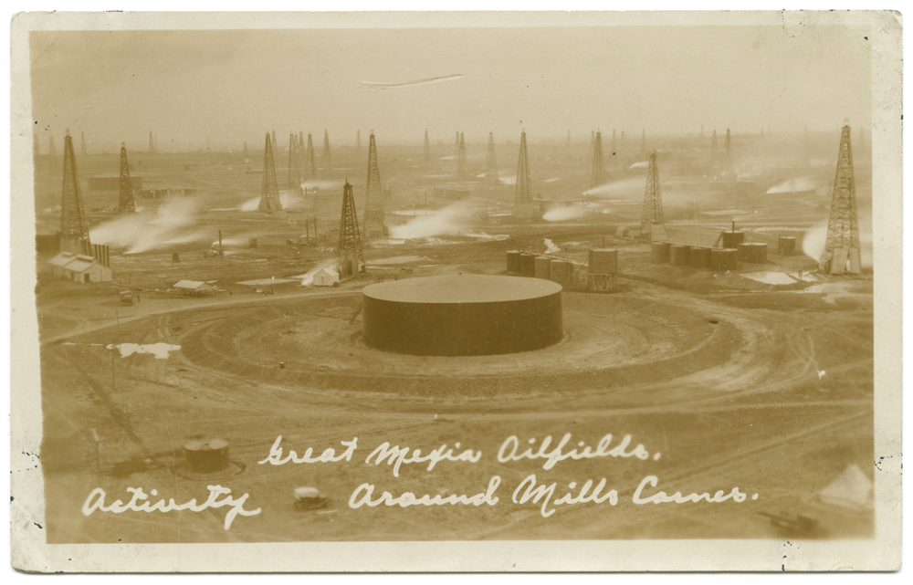 Title: Great Mexia Oilfields, Activity Around Mills Corner. Creator: Unknown Date: ca. 1920s Part Of: Collection of real photographic postcards of Texas Place: Mexia, Limestone County, Texas Physical Description: 1 photographic print (postcard) File: ag2005_0001_03_107_c_mexia_opt Rights: Please cite DeGolyer Library, Southern Methodist University when using this file. A high-resolution version of this file may be obtained for a fee. For details see the web page. For other information, . For more information, View Texas: Photographs, Manuscripts, and Imprints